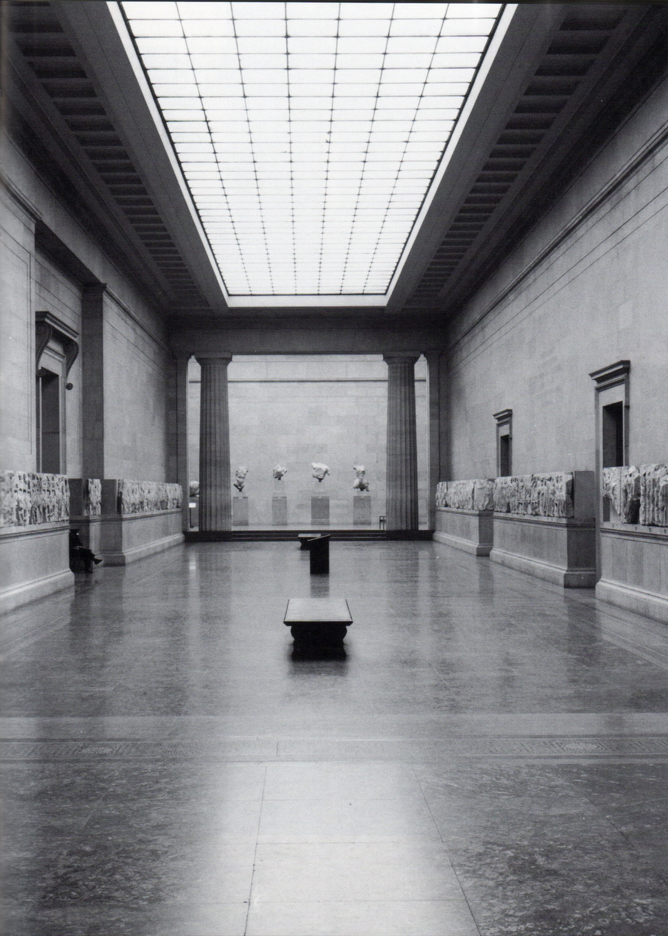 The Duveen Gallery (1980s)